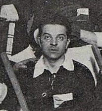 czech ice hockey player Josef Šroubek in 1923